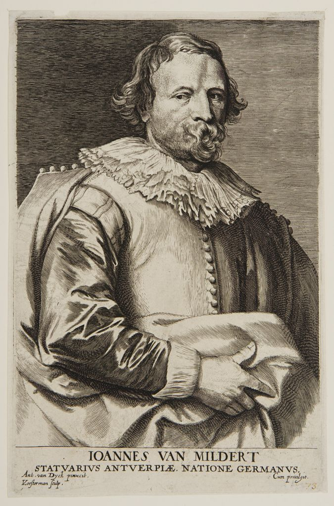 Portrait of sculptor Johannes van Mildert, included in the 'Iconography of Van Dyck' , Antwerp, 1645